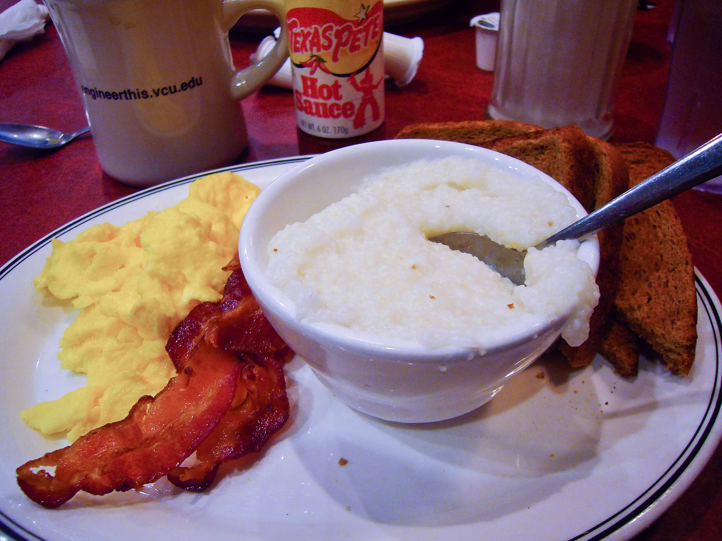 A typical southern breakfast served at a restaurant in Richmond Virginia. Grits, eggs, bacon and toast.